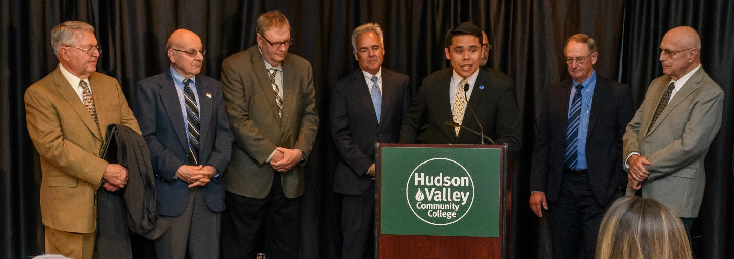 HVCC Board of Trustees